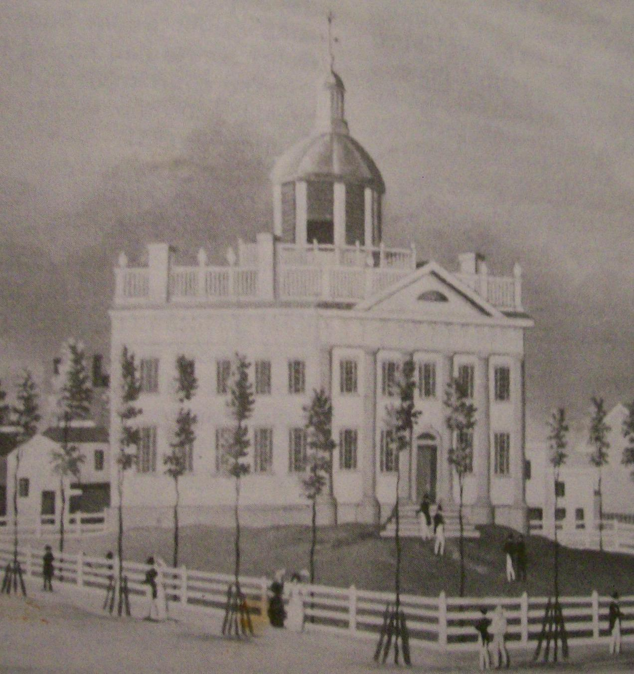 The second Cuyahoga County Courthouse in Cleveland, Ohio. This print is in my possession and labels the date as being 1830.]